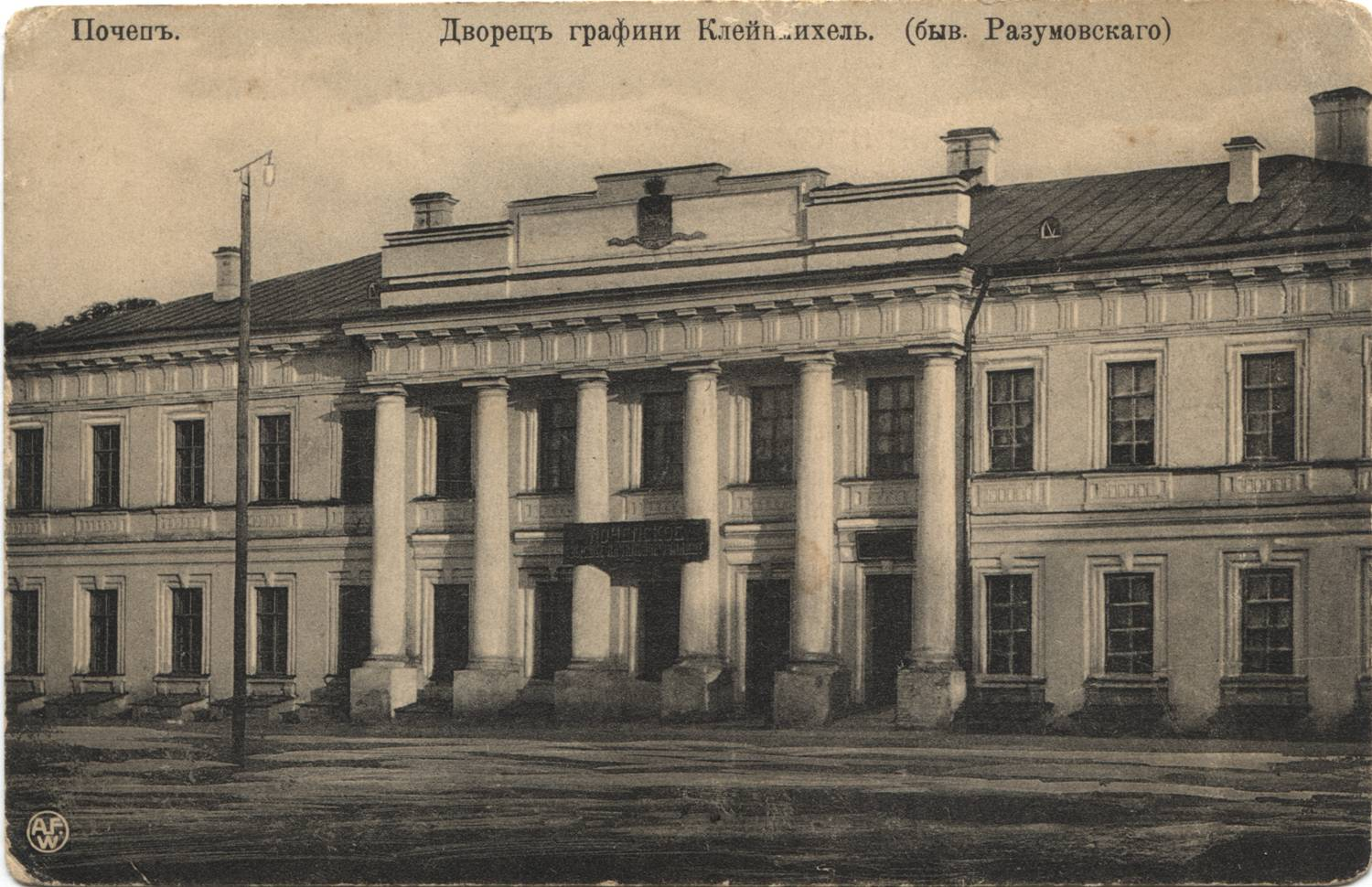 Pochep, Bryansk Oblast. Razumovsky palace.